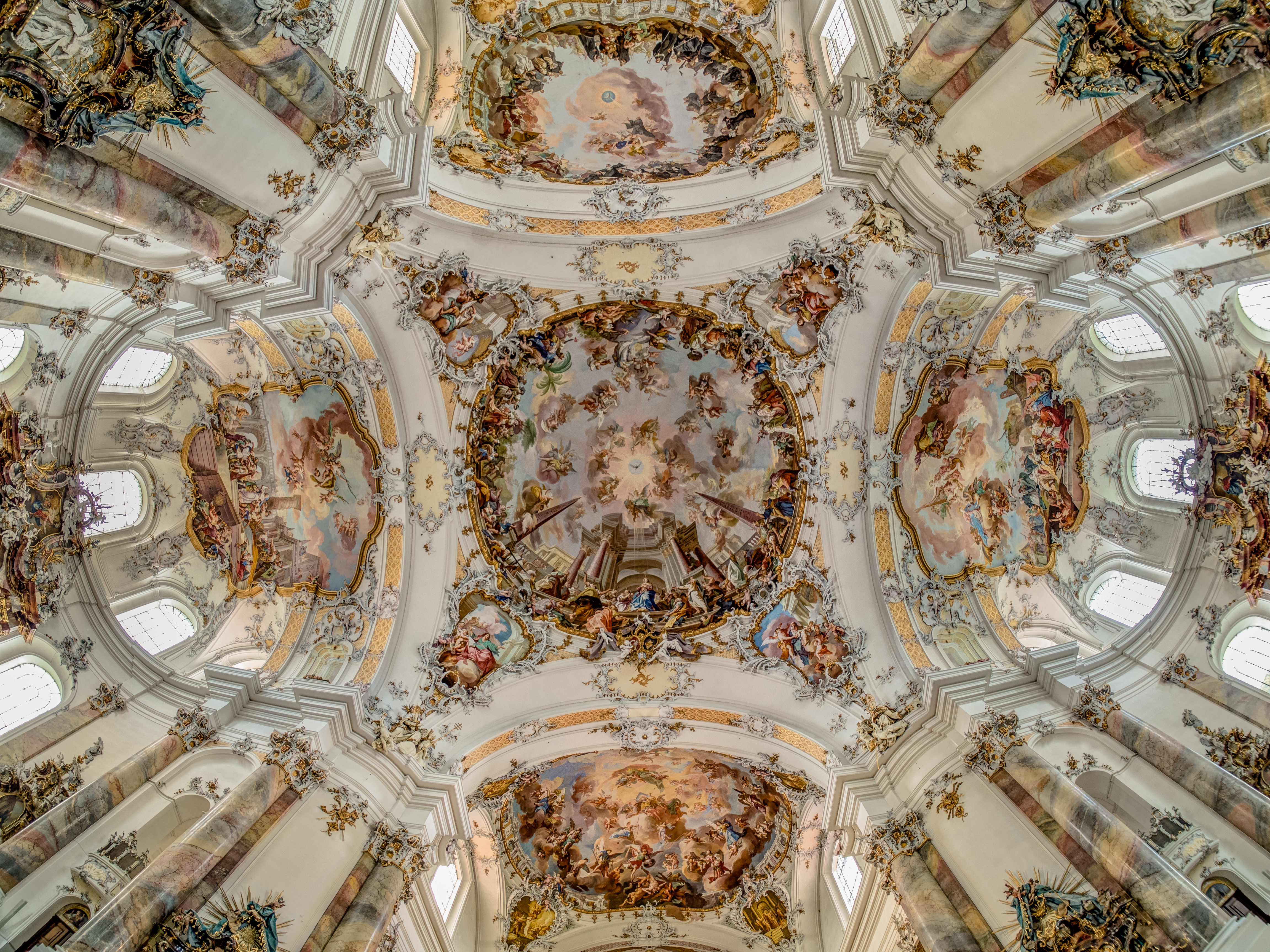 Ceiling fresco of the abbey basilica in Ottobeuren made by Johann Jakob and Franz Anton Zeiller from 1757 to 1760